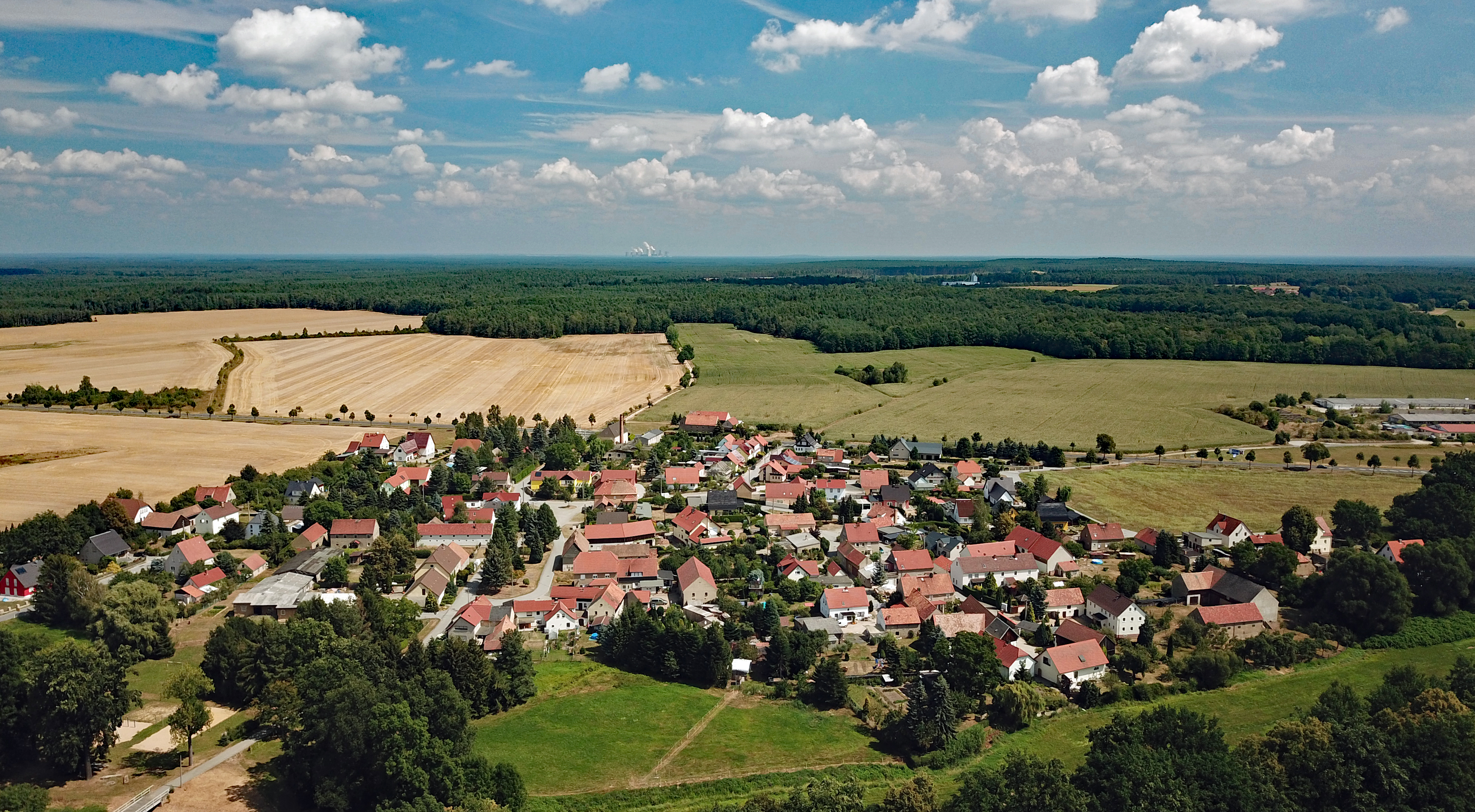 Neudorf (Neschwitz, Saxony, Germany) Hornjoserbsce: Powětrowy wobraz Noweje Wsy pola Njeswačidła